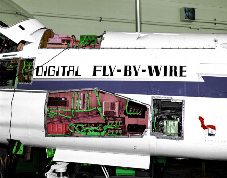 F-8 Crusader equipped with fly-by-wire system (in green). Original NASA description: "The Apollo hardware jammed into the F-8C. The computer is partially visible in the avionics bay at the top of the fuselage behind the cockpit. Note the display and keyboard unit in the gun bay. To carry the computers and other equipment, the F-8 DFBW team removed the aircraft's guns and ammunition boxes." More at